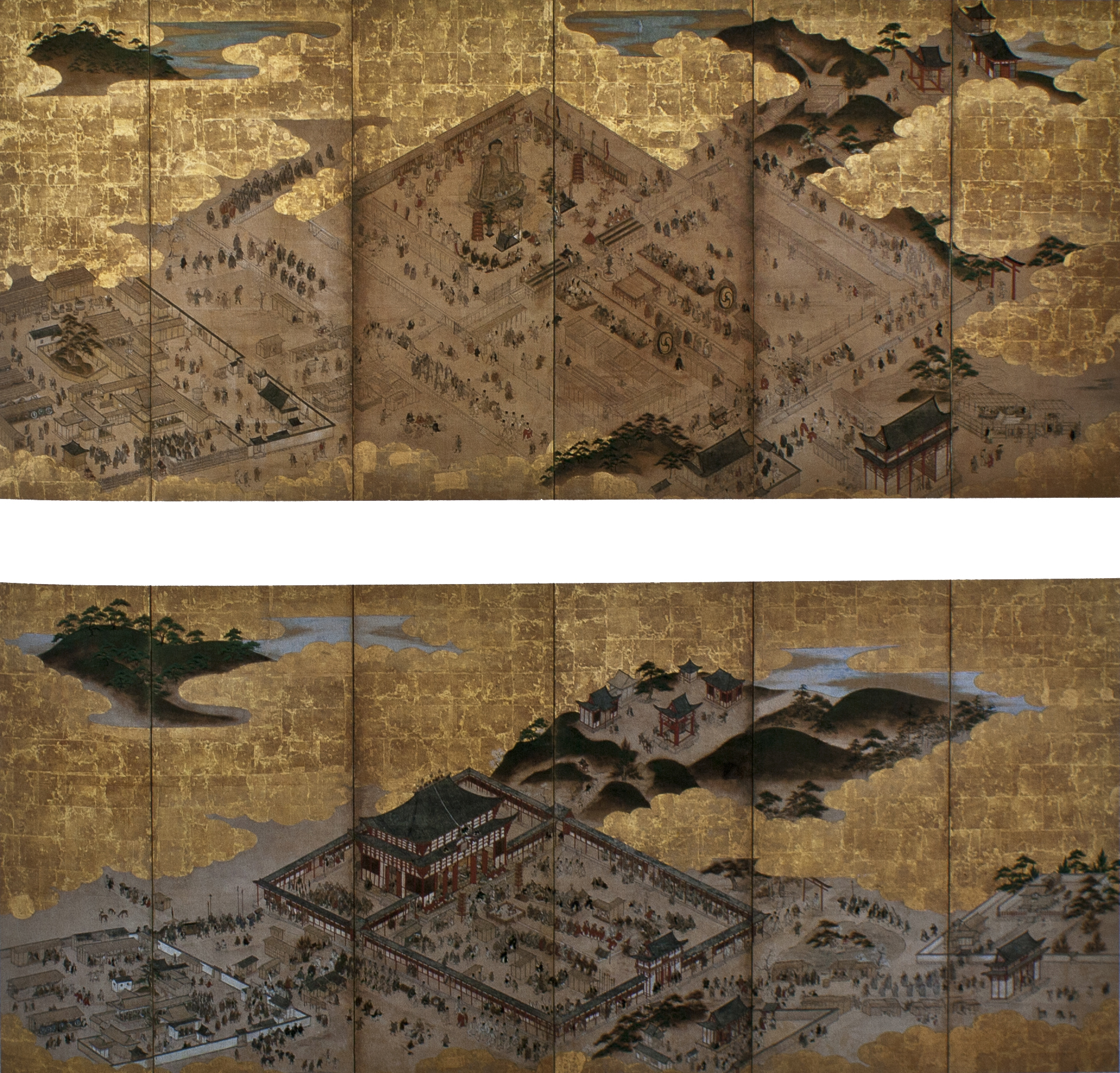 18thC, Todaiji, Nara, Japan